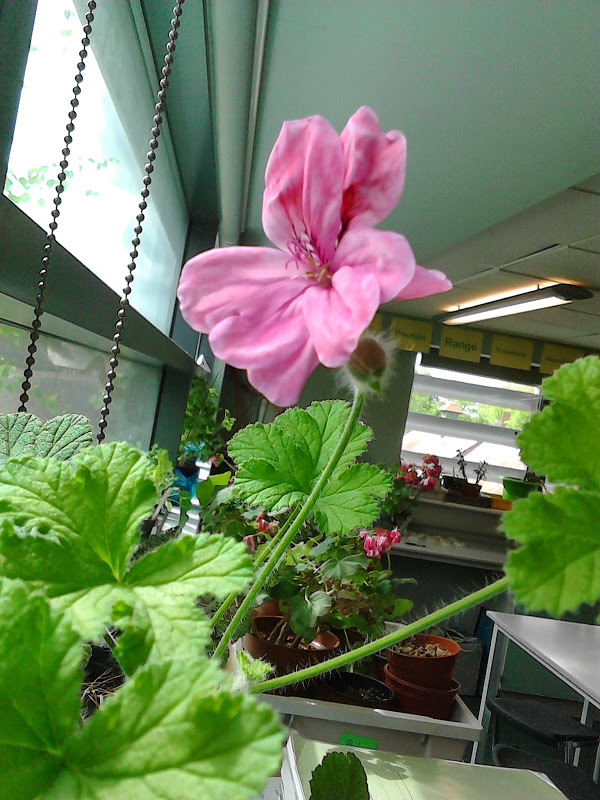 A photograph of Pelargonium 'Clorinda' in flower.